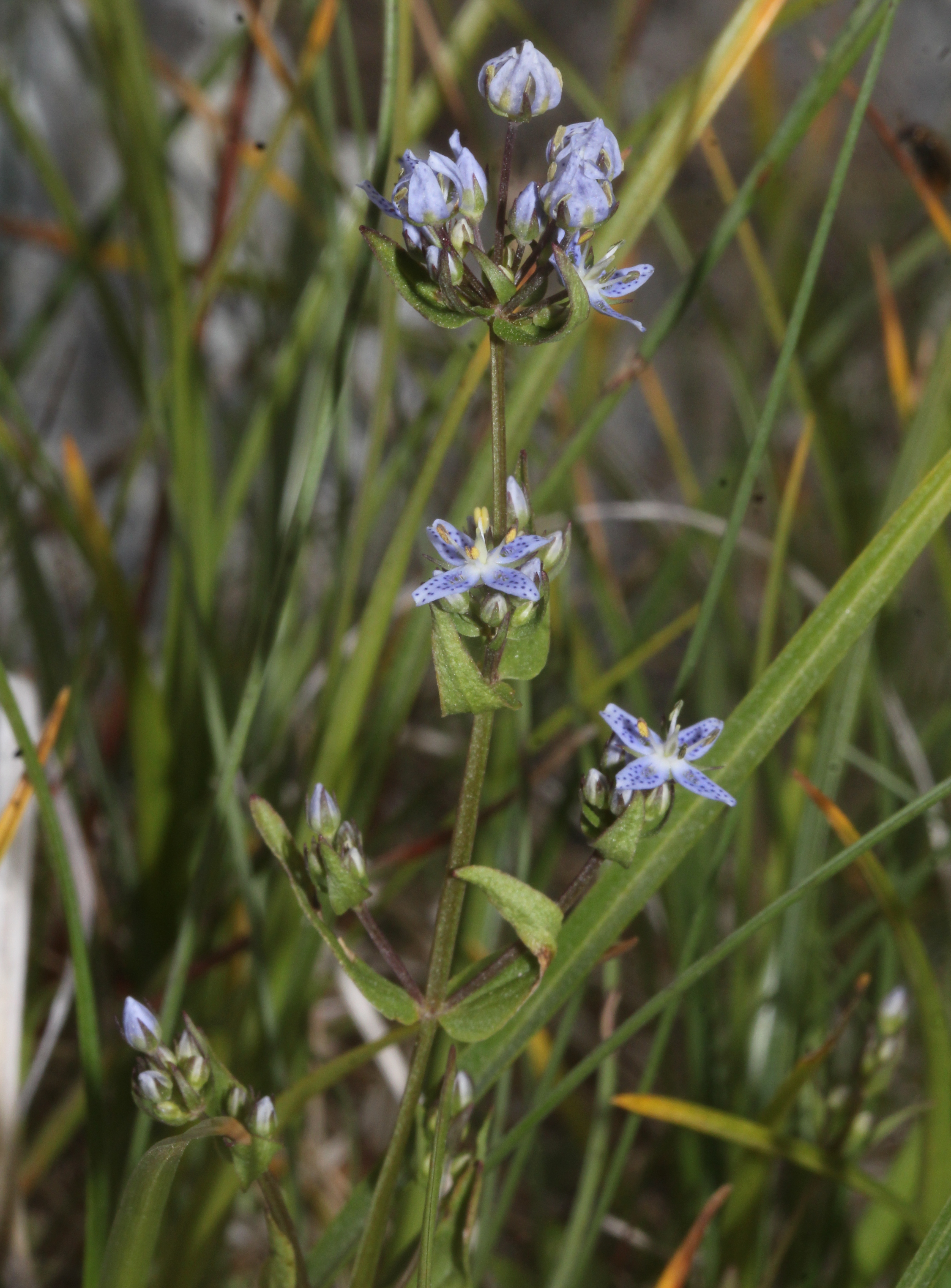 Swertia tetrapetala subsp. micrantha var. happoensis on Happo Ridge of Mount Karamatsu, Hida Mountain, Hakuba, Nagano Prefecture, Japan.